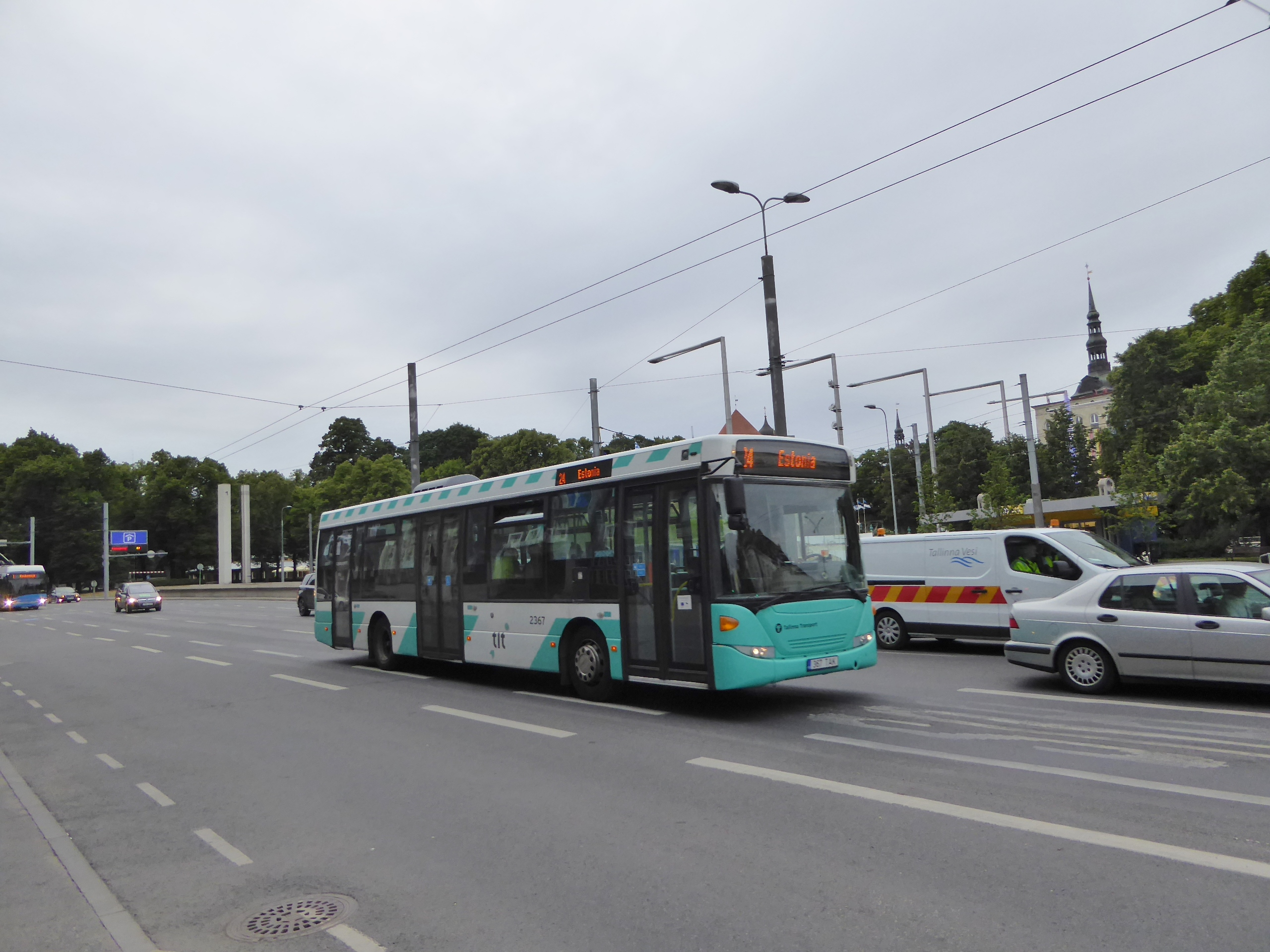 TLT bus line 24 on Vabaduse väljak at Pärnu maantee in Tallinn.